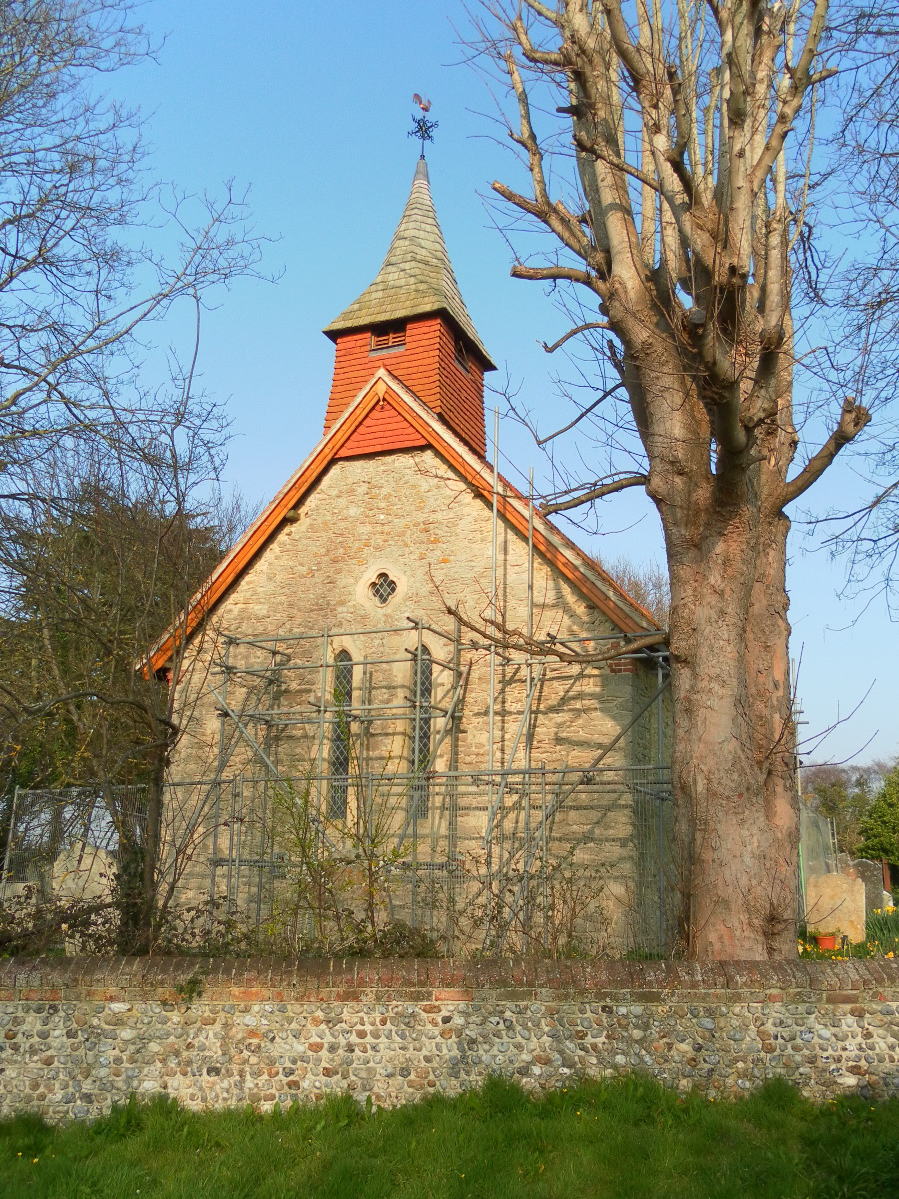 West end of the former parish church of the Assumption of St Mary the Virgin, Church Farm Lane, East Wittering, West Sussex, England, seen from the southwest